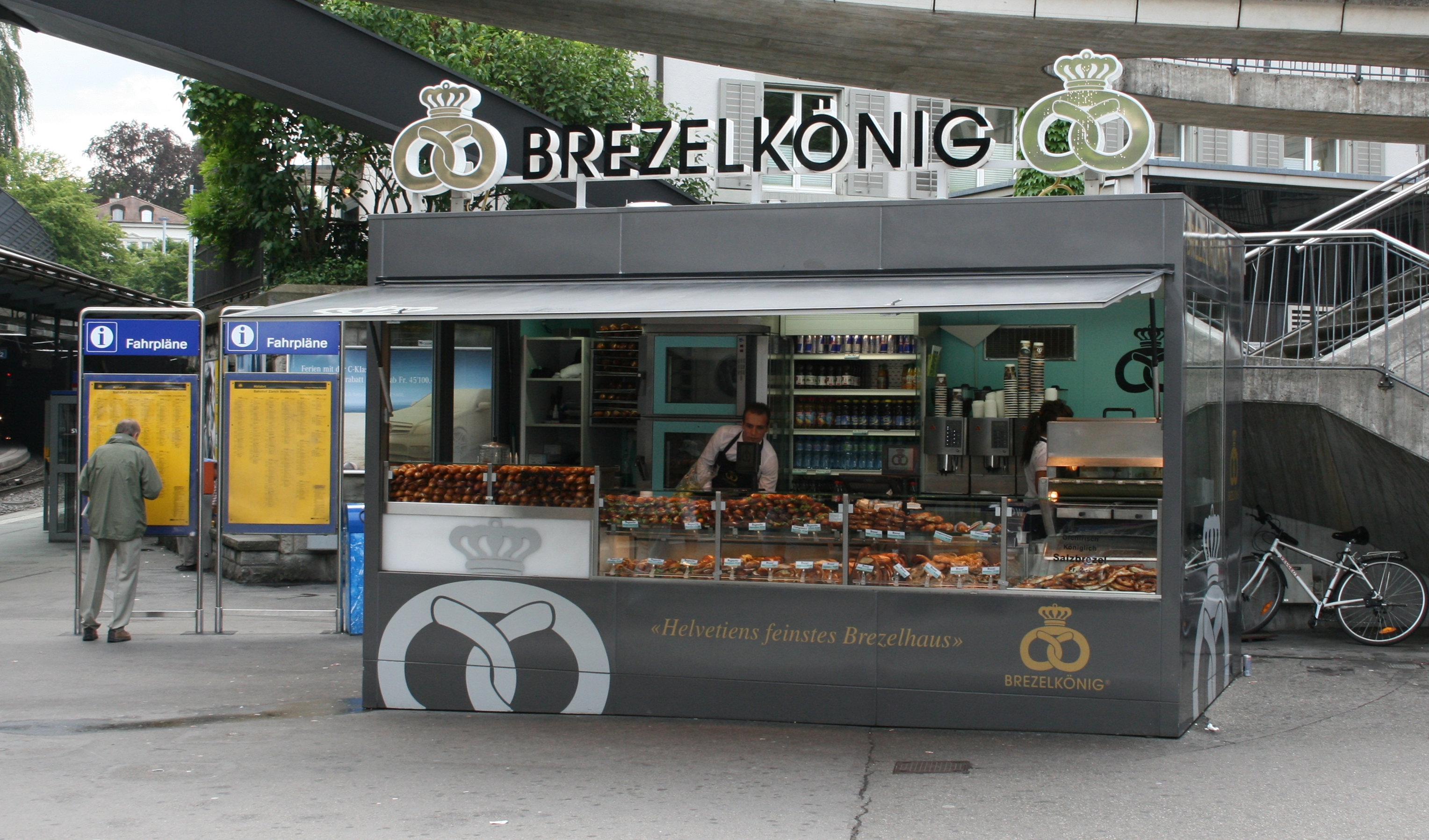 Switzerland, Zurich, Railway station Stadelhofen: modern shop for Pretzels.